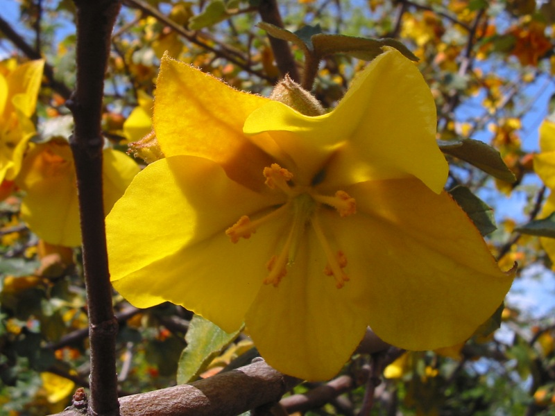 Fremontodendron californicum — California flannel bush. Jardin des Plantes de Paris.